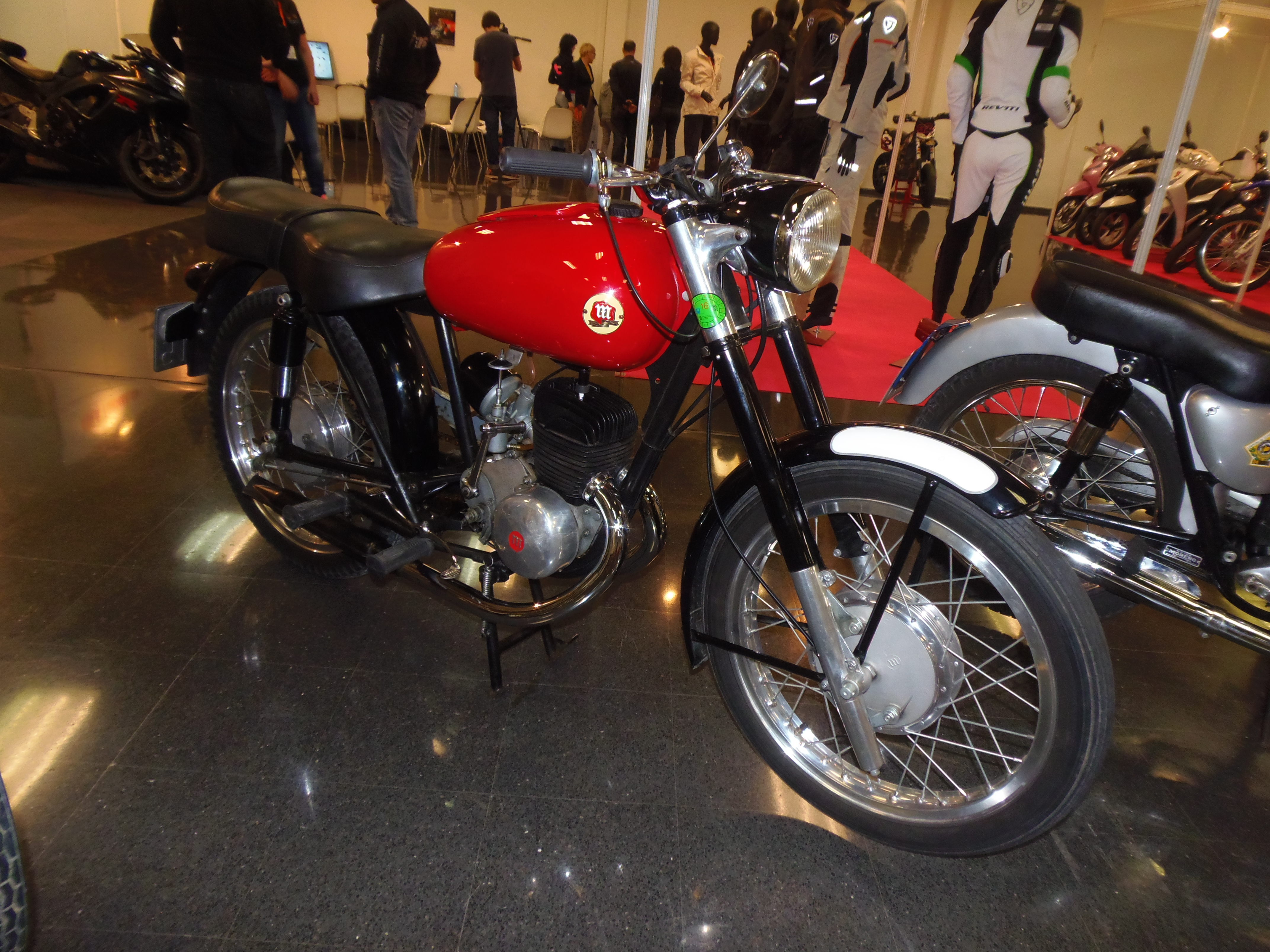 Montesa Brio 110, 1959